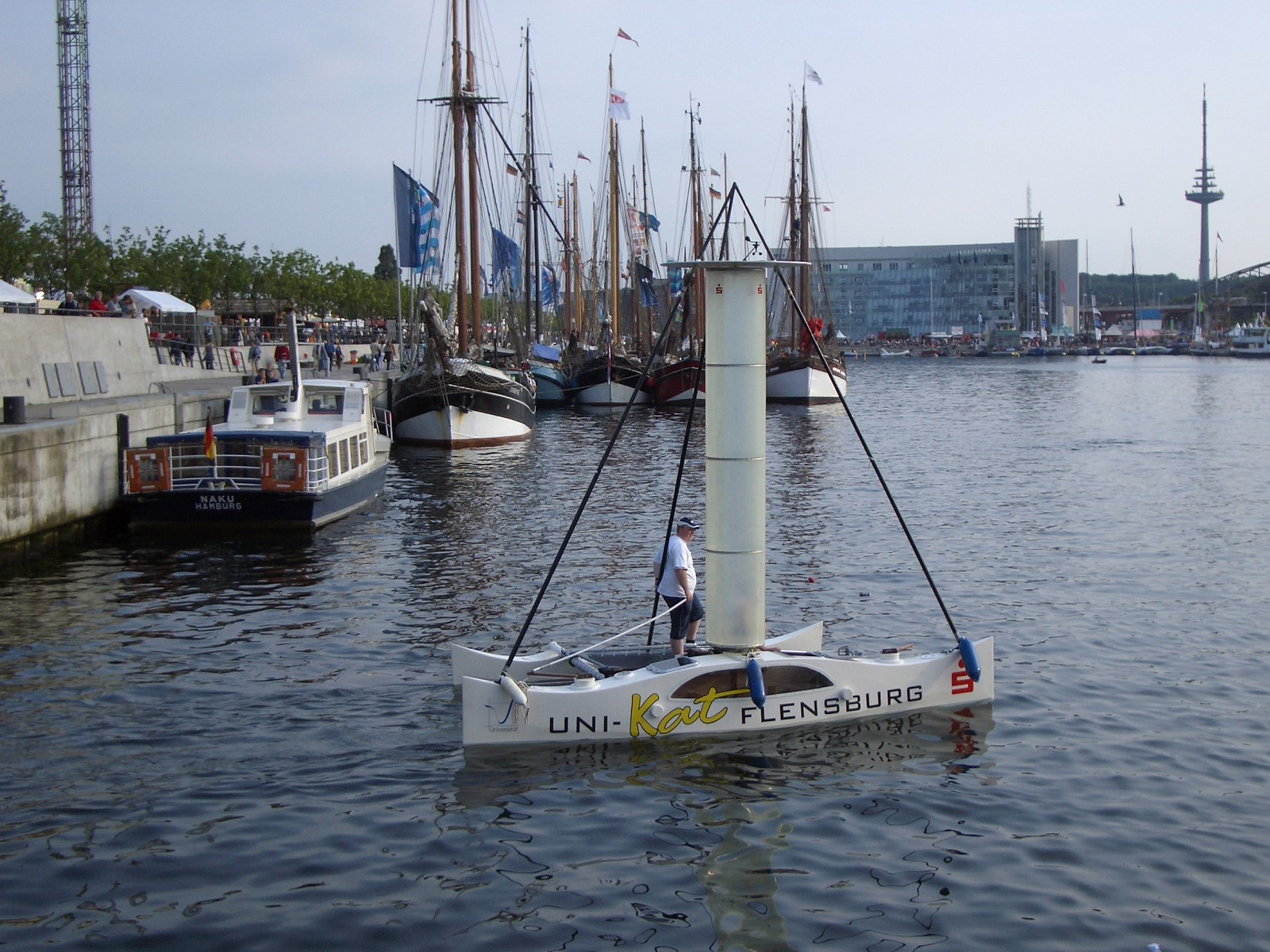 Rotor Catamaran (Catamaran with Flettner Rotor) Uni-Cat Flensburg of Flensburg University, Germany, at Kiel Week 2007 in Kiel Hoern, southern end of Kiel Fjord.